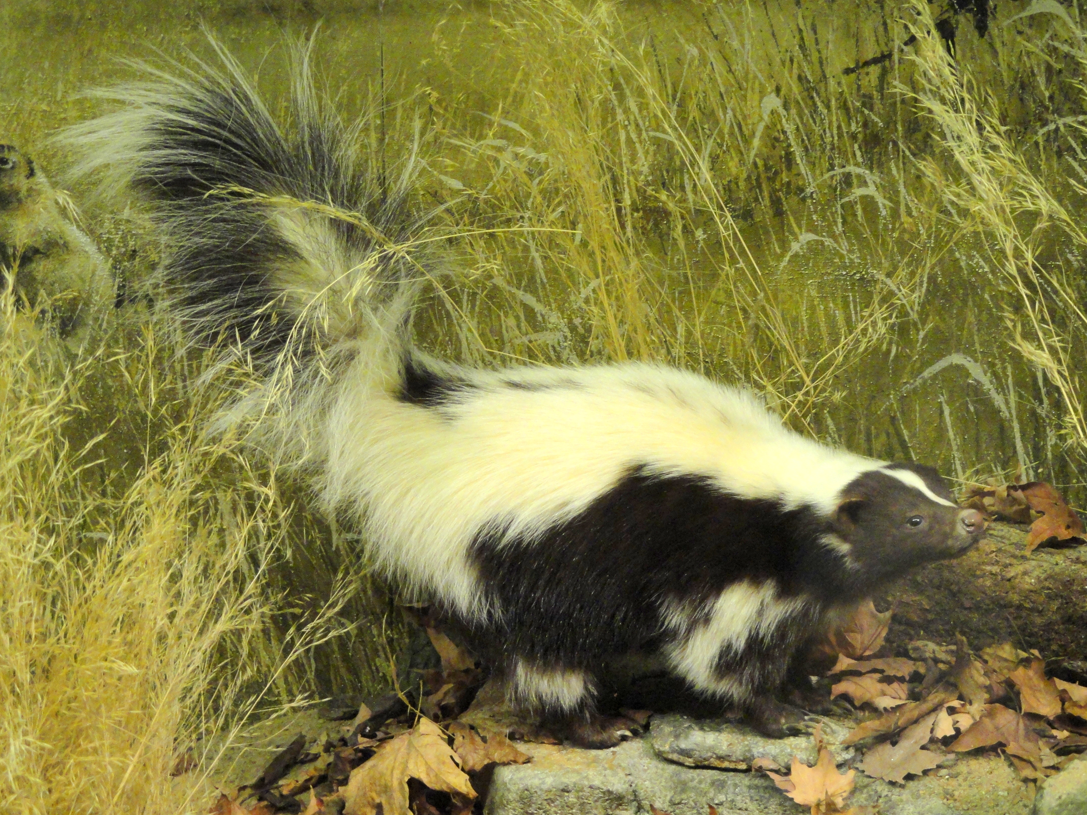 Exhibit in the Finnish Museum of Natural History, Helsinki, Finland.